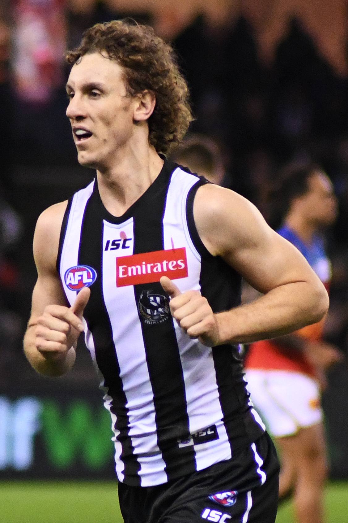 Chris Mayne of Collingwood during the 2018 AFL round 21 match between Collingwood and Brisbane at Etihad Stadium on Saturday, 11 August 2018 in Melbourne, Victoria.